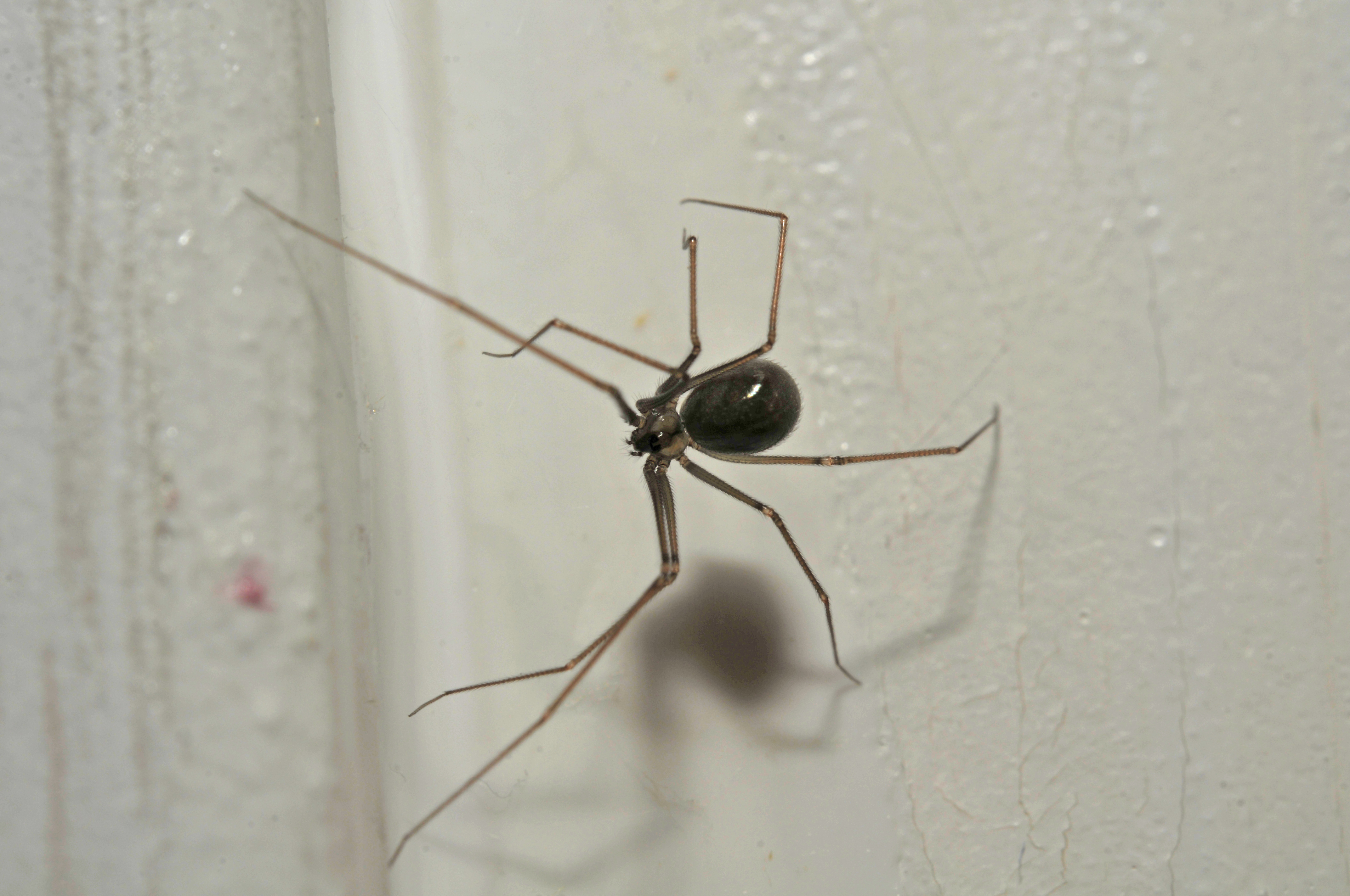 unidentified